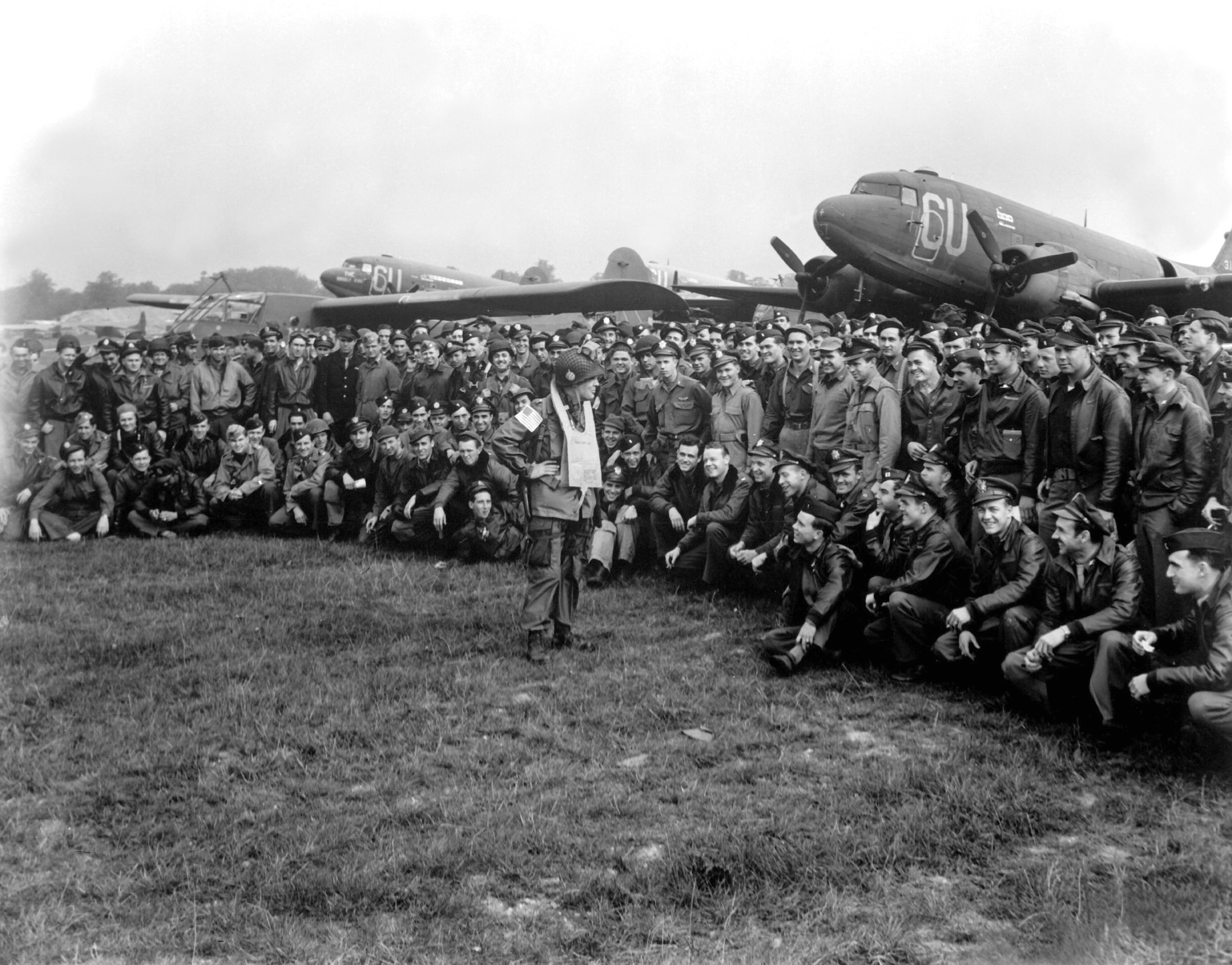 Brig. Gen. Anthony C. Mcauliffe, artillery commander of the 101st Airborne Division, gives his various glider pilots last-minute instructions in England on Sept. 18, 1944, before the take-off on D-Day plus 1.